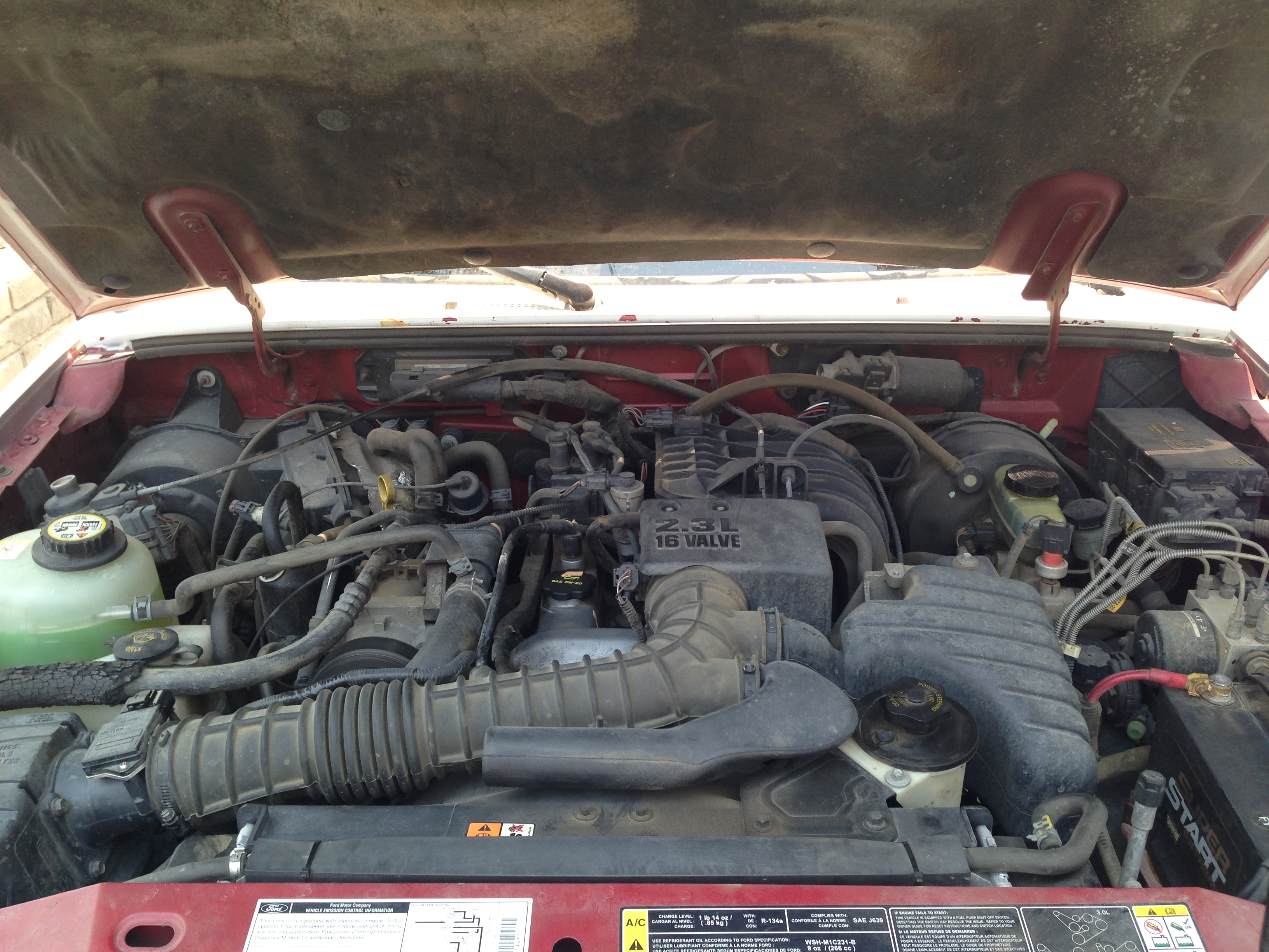 A 2.3 L Ford Duratec DOHC I4 engine in a 2002 Ford Ranger.